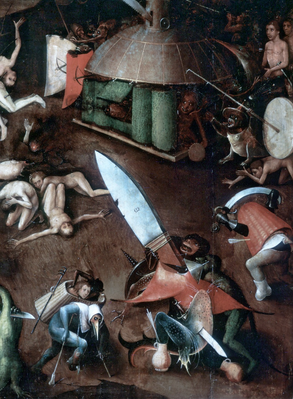 The Last Judgment [detail].